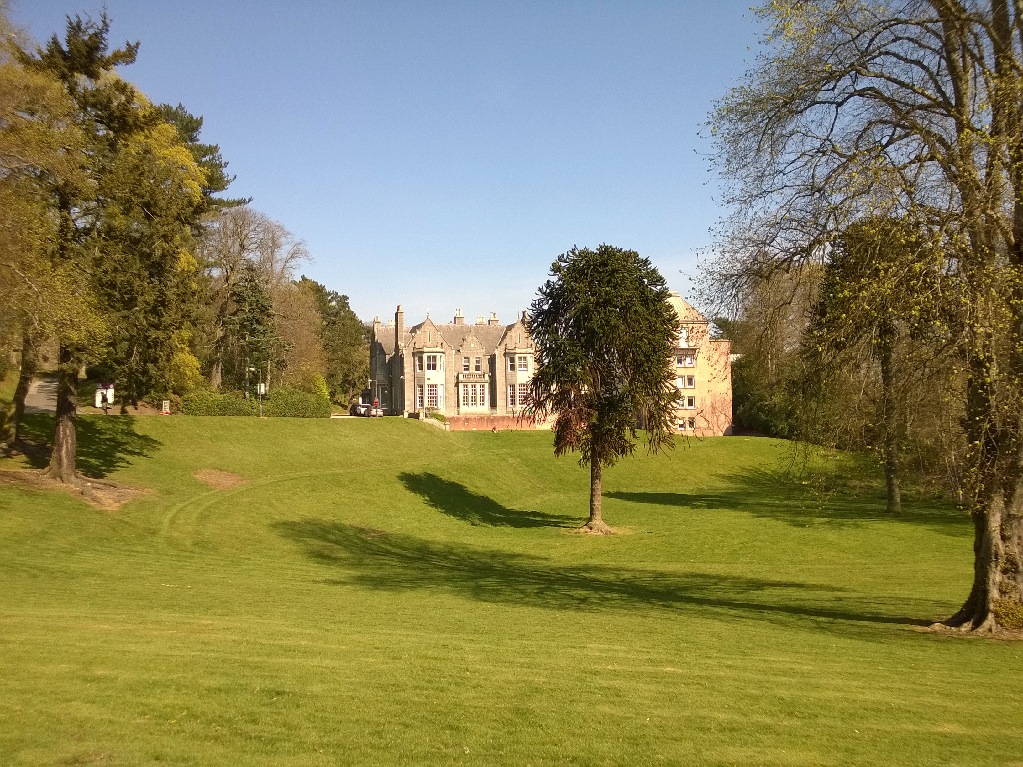 The Robert Gordon University, Aberdeen, Scotland: Garthdee House seen across lawn (to left of monkey puzzle tree). To the right of the tree is the Square Tower student residences.